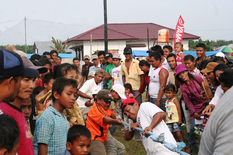 66th anniversary of independence day of the Republic of Indonesia.